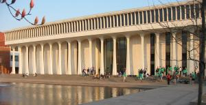 Photo of Robertson Hall at Princeton University. Robertson houses the Woodrow Wilson School of Public and International Affairs. The people in green shirts in the lower-right hand corner are members of the Undergraduate Class of 2003, about to embark on the WWS tradition of wading into the fountain in front of Robertson after turning in their senior theses. (The image was taken by the uploader, who has released it under GFDL.)